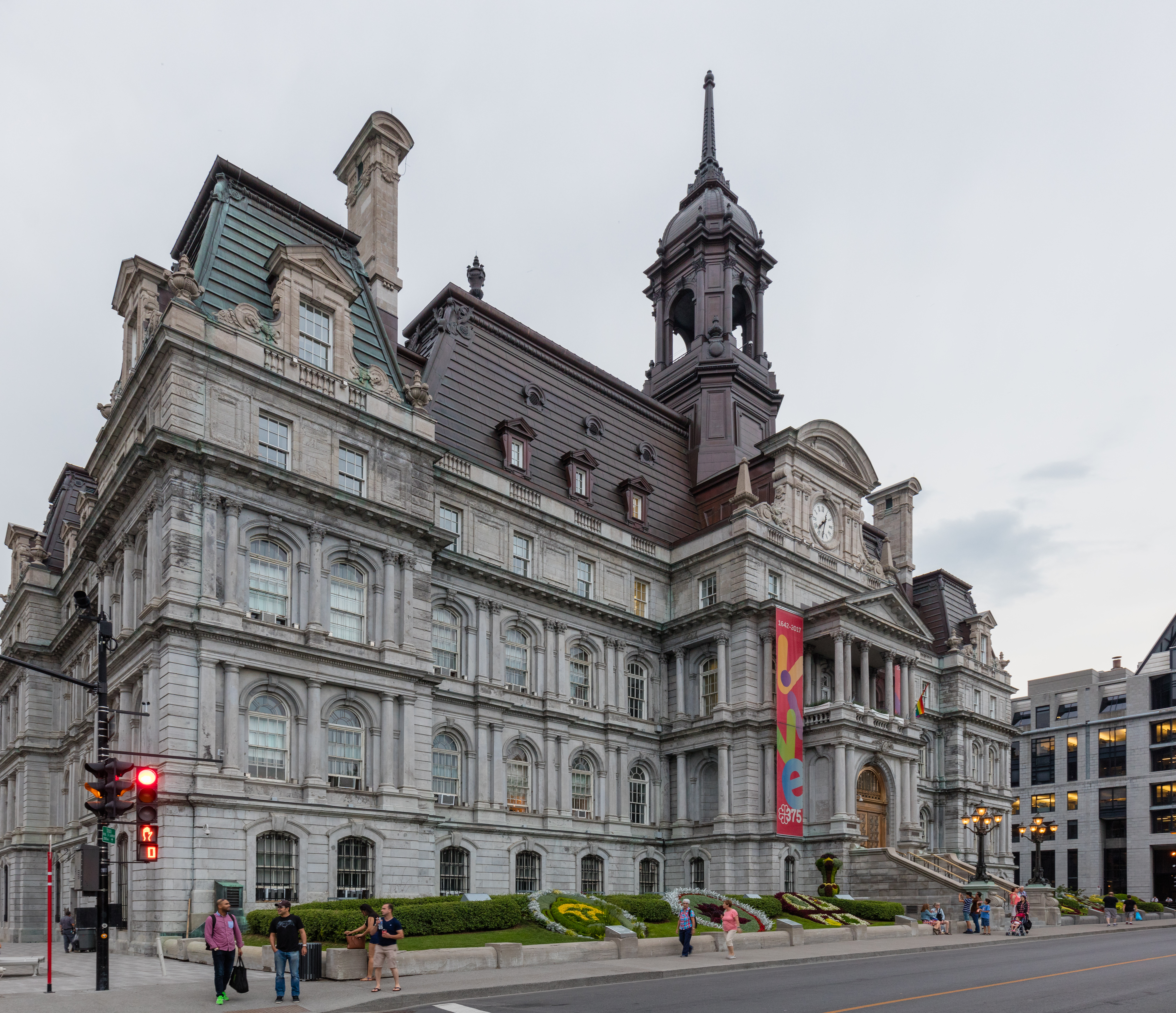 Montreal City Hall, Canada